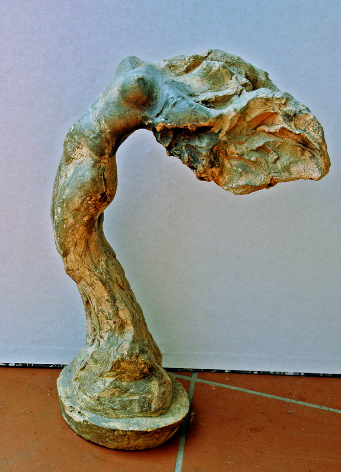 Sculpture Longing, burnt clay, height 34 cm, by Leonard Rotter, 1940th